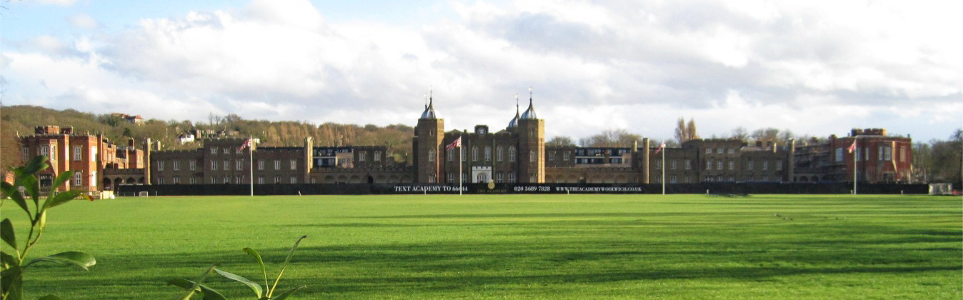 Main Building, Royal Military Academy